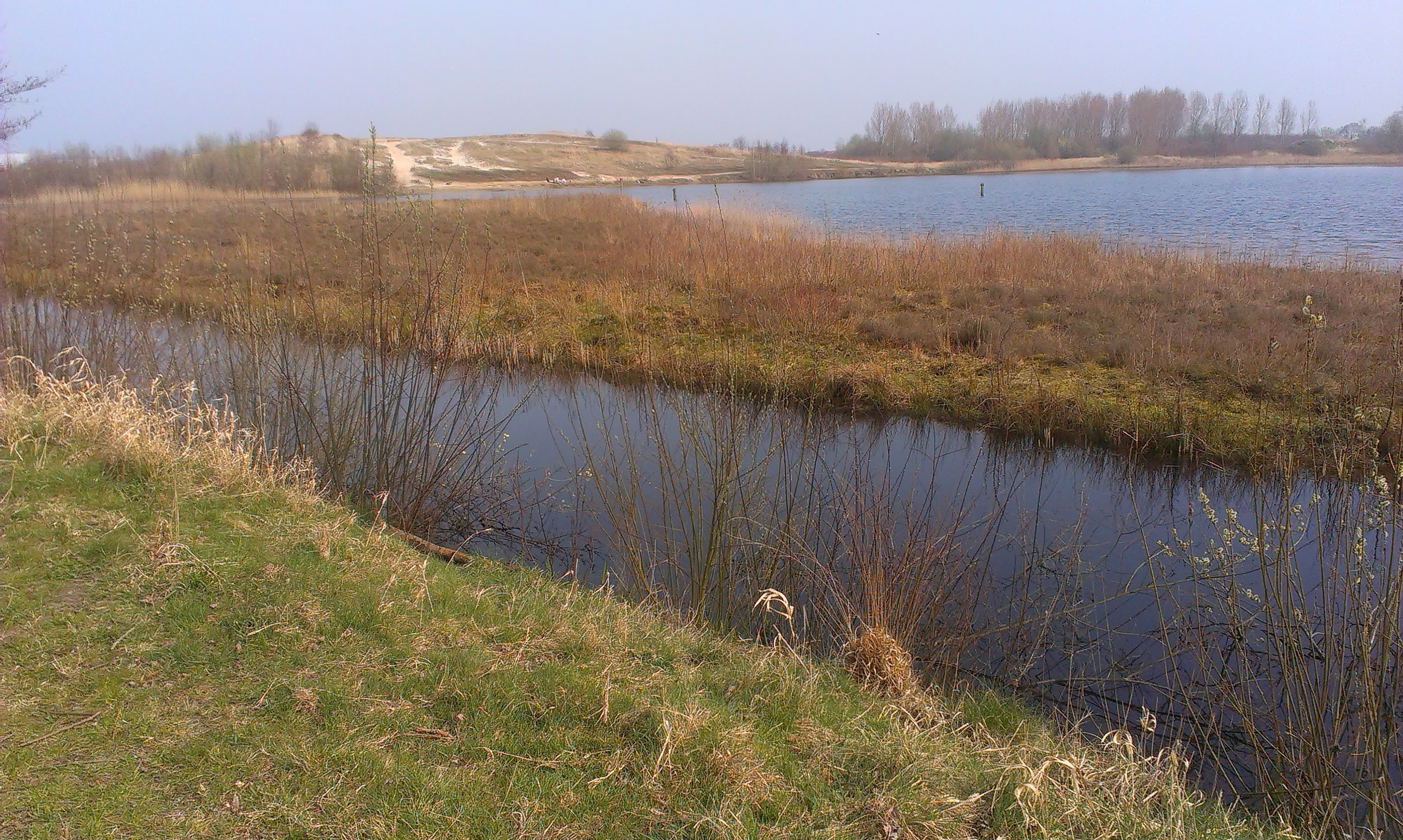 Lake Tripsgat in the Adriaan Trips Woods close to Tripscompagnie in the Netherlands